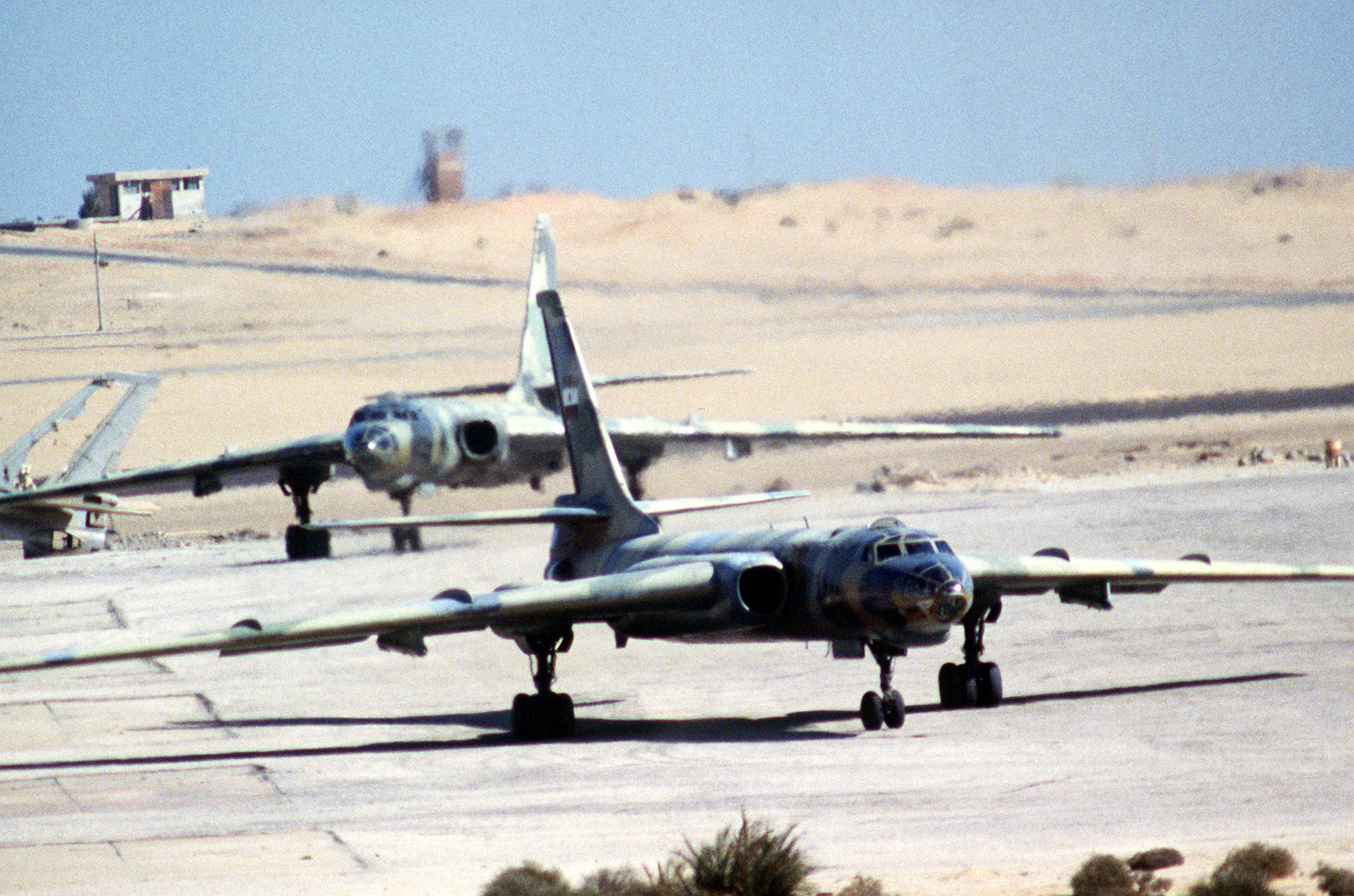 Front view of two Egyptian Air Force? Tu-16, Tupolev, aircraft taxing on the runway during airlift exercise Bright Star. The Tu-16's NATO designation is Badger.